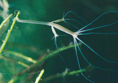 Hydra oligactis budding attached to a plant.